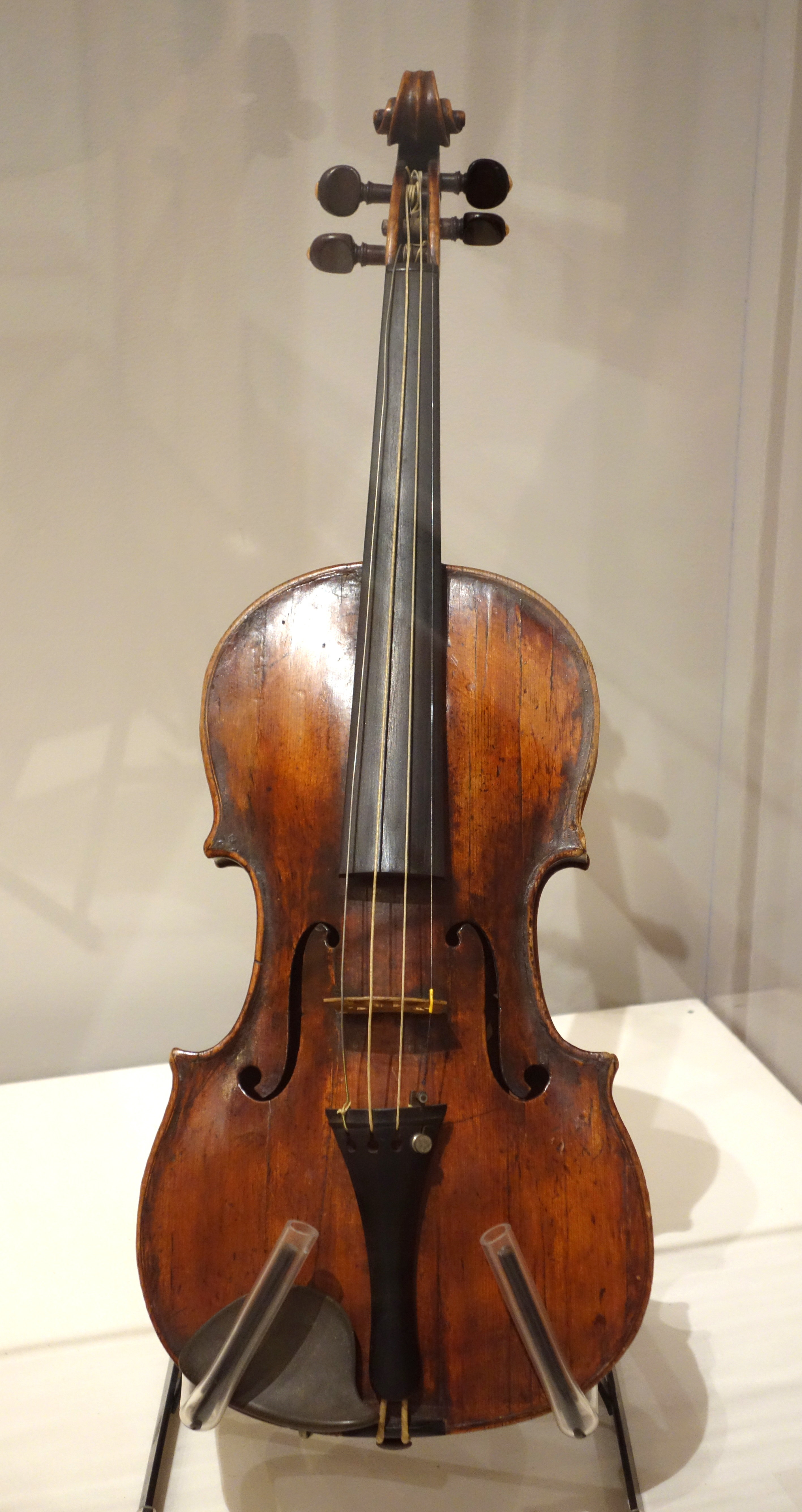 Exhibit in the Huntington Museum of Art, Huntington, West Virginia, USA. This artwork is in the public domain because the artist died more than 70 years ago.